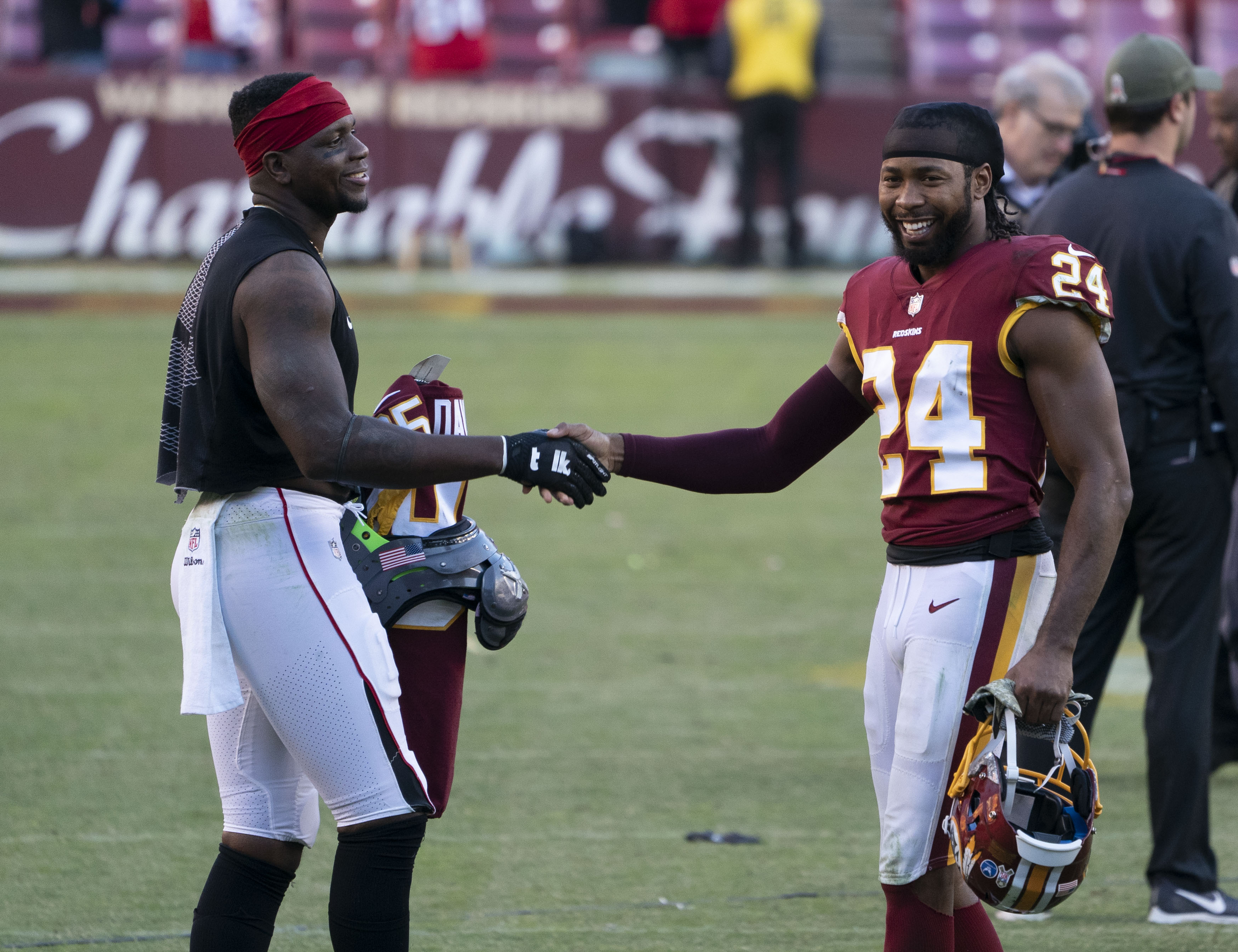 Falcons at Redskins 11/04/18